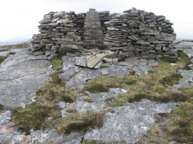 Beinn Eilideach trig point, near to Leckmelm, Highland, Great Britain.